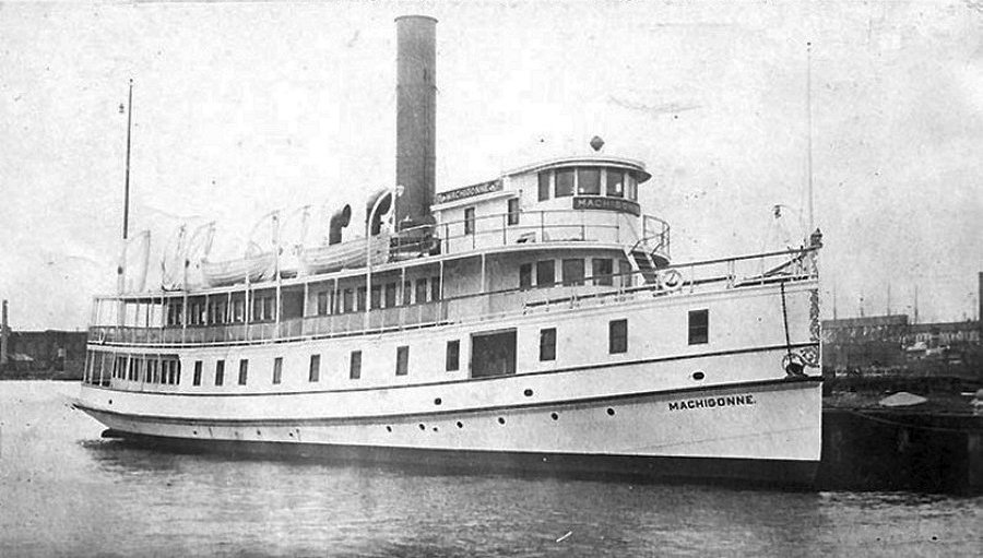 SS Machigonne (later renamed Yankee), date unknown, but probably from the 1910s or 1920s